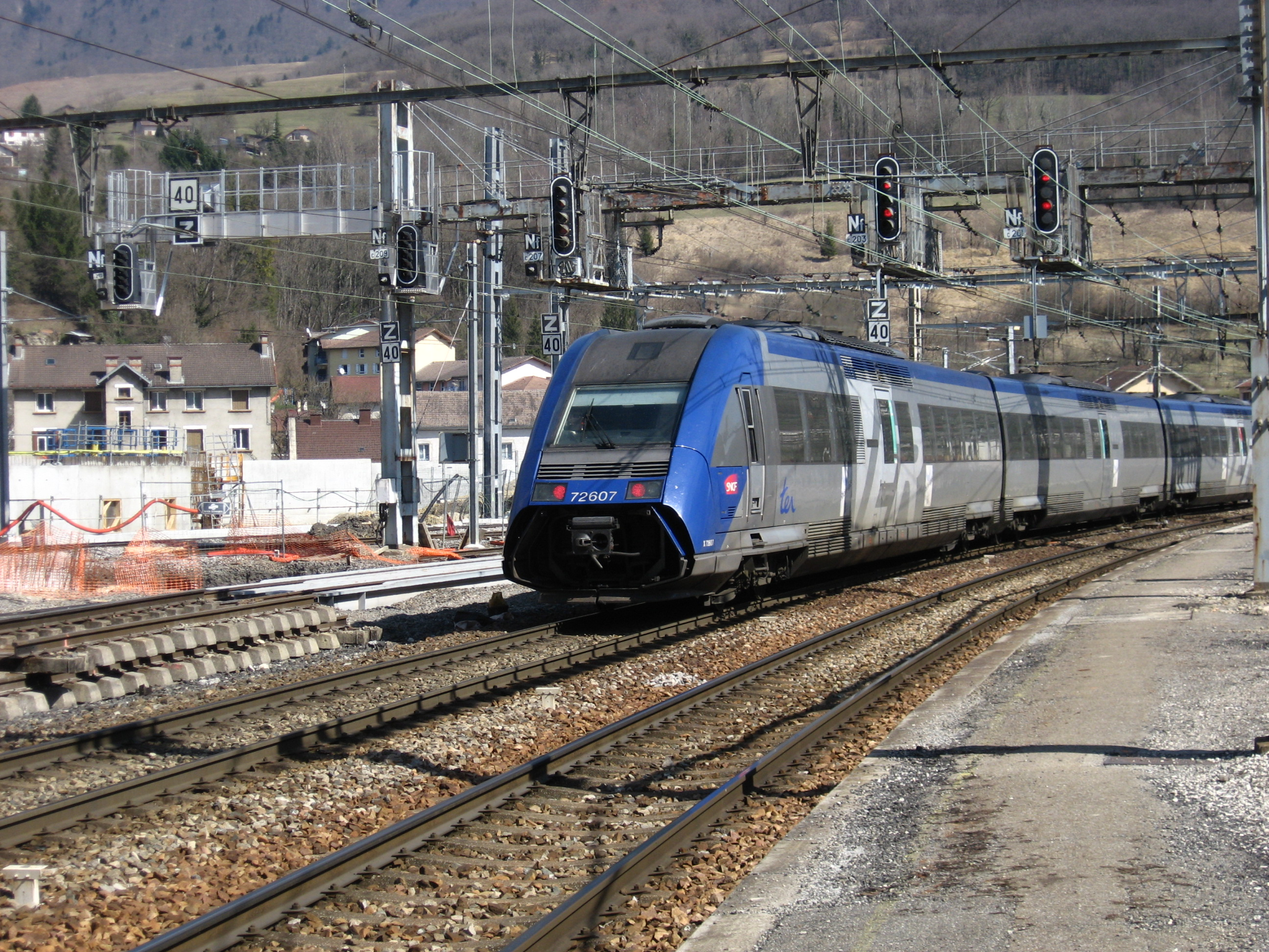 Train leaving the station off Bellegarde. In the background works for the new TGV platforms.